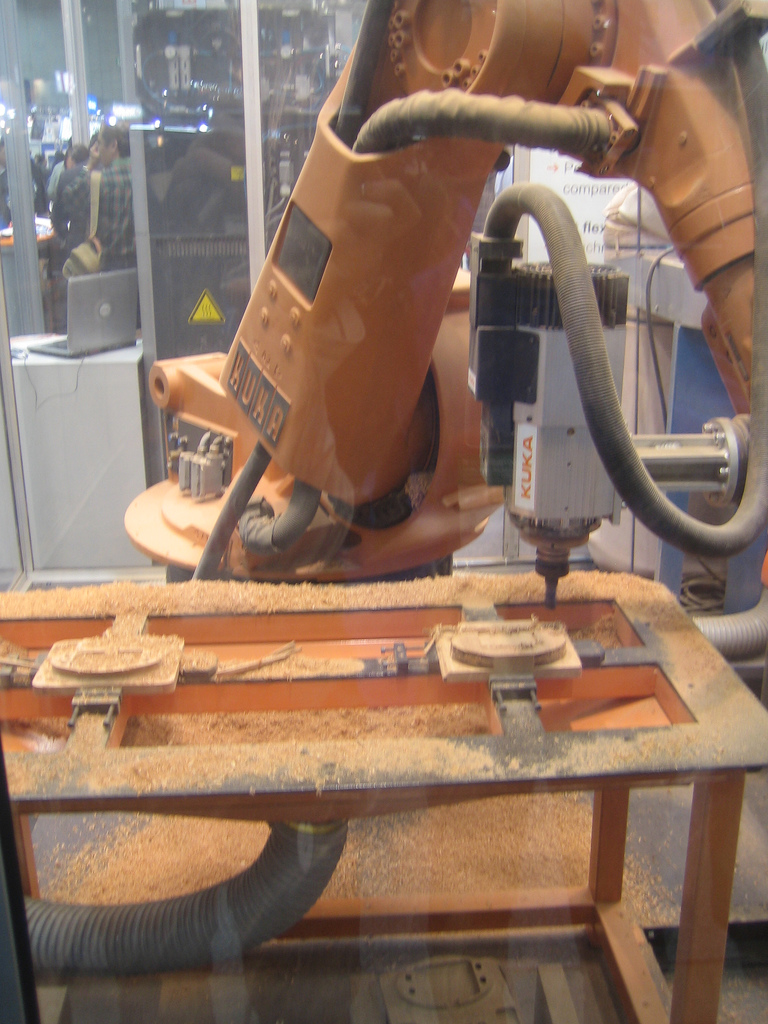 Industrial robot for wood processing and rapid ptototyping, shown at IREX 2007, Tokyo, Japan